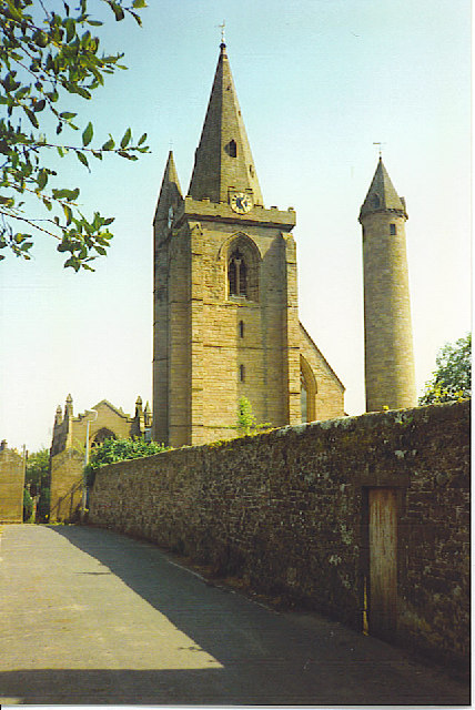 Cathedral and Celtic Round Tower, Brechin. The only other Celtic round tower on the Scottish mainland is at Abernethy in Fife.